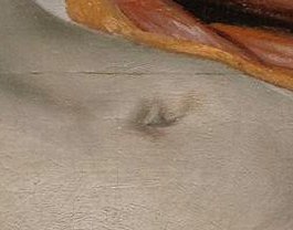 Detail of The Anatomy Lesson of Dr. Nicolaes Tulp, Subject's navel shaped like the letter R, for Rembrandt.